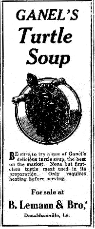 Newspaper ad for Ganel's Turtle Soup, from 1919.